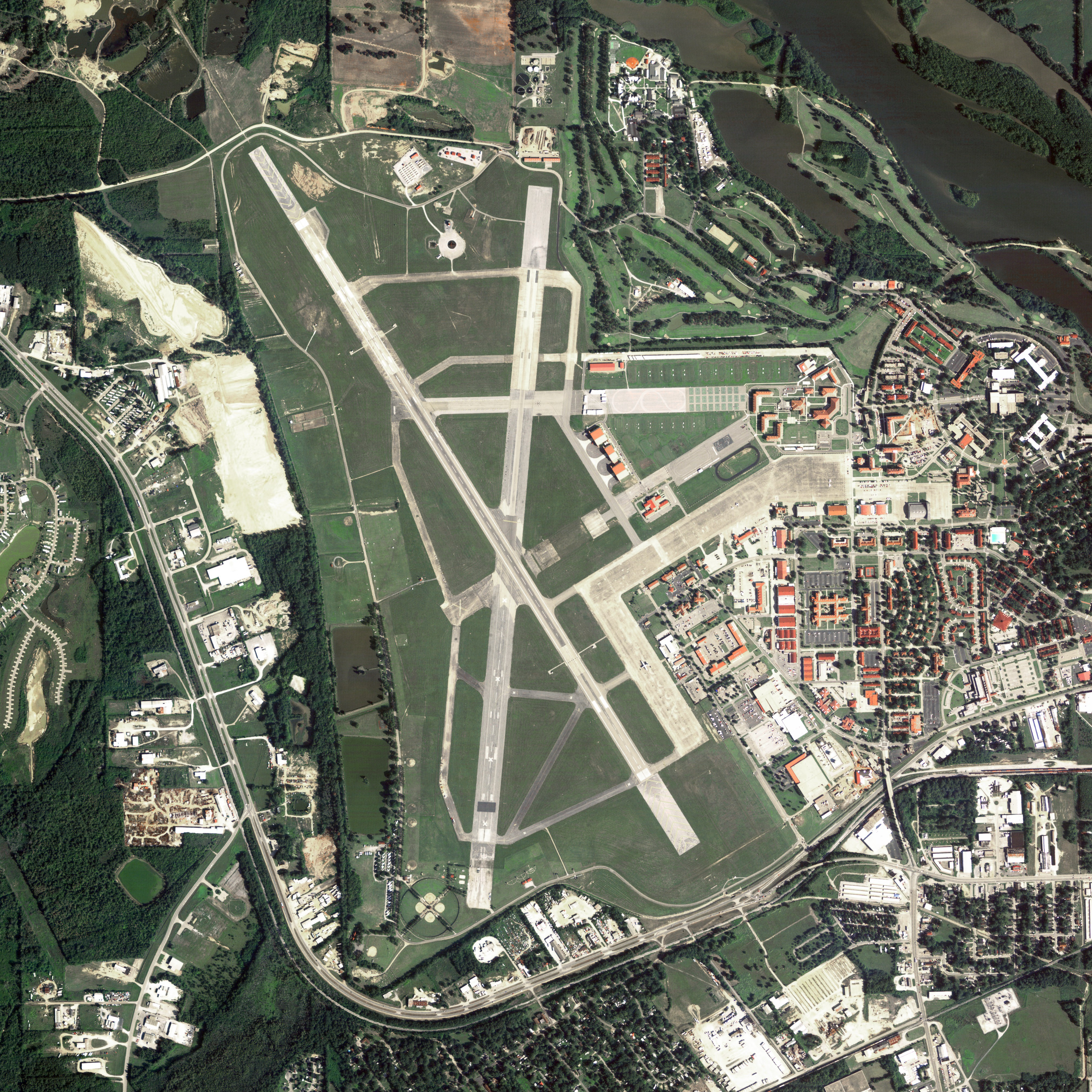 Aerial image of Maxwell Air Force Base in Montgomery, Alabama, United States